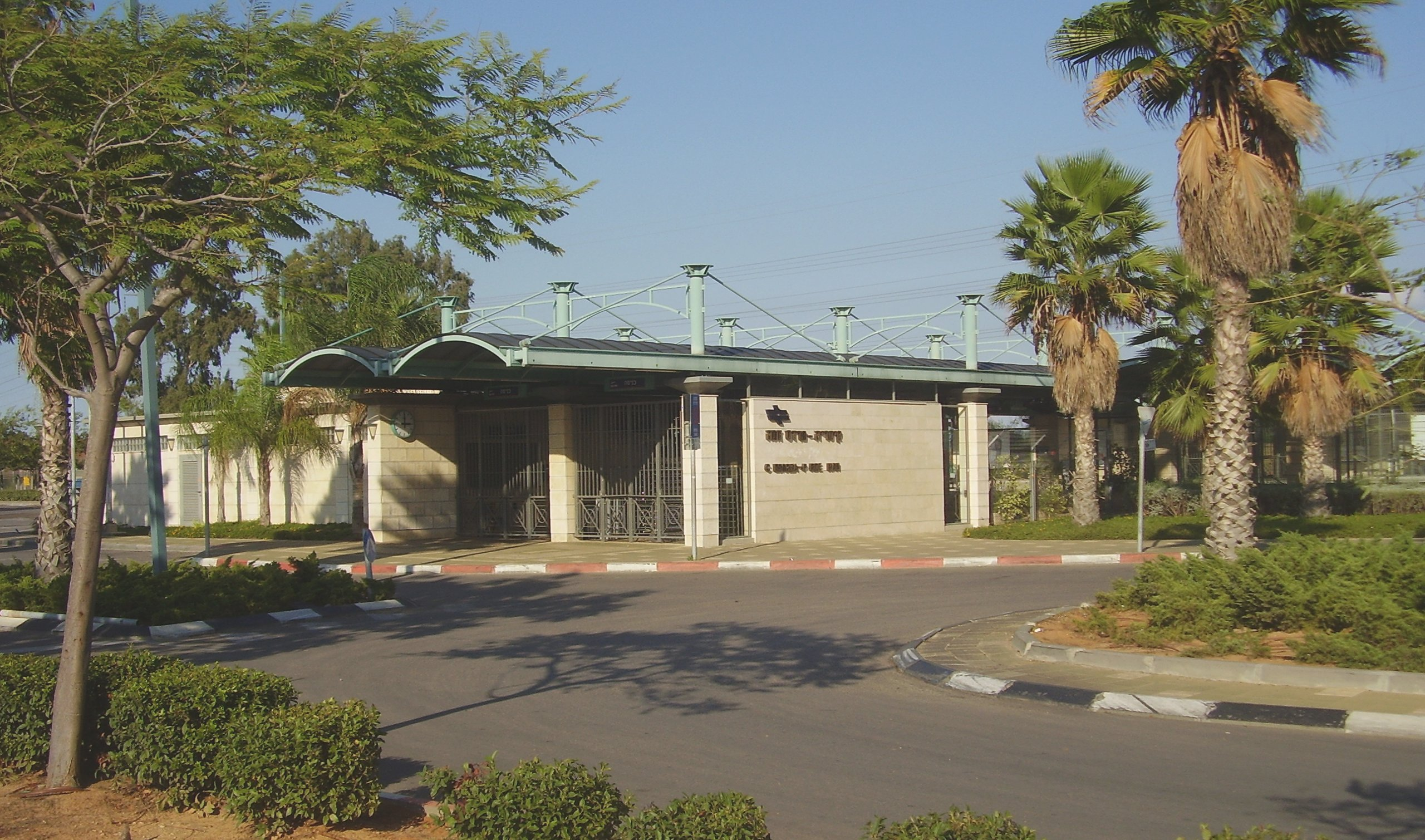 The west entrance to the Qesaryya-Pardes Hanna train station, Israel